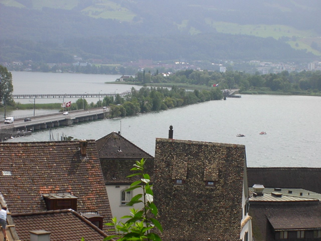 Seedamm causeway, Rapperswil-Jona